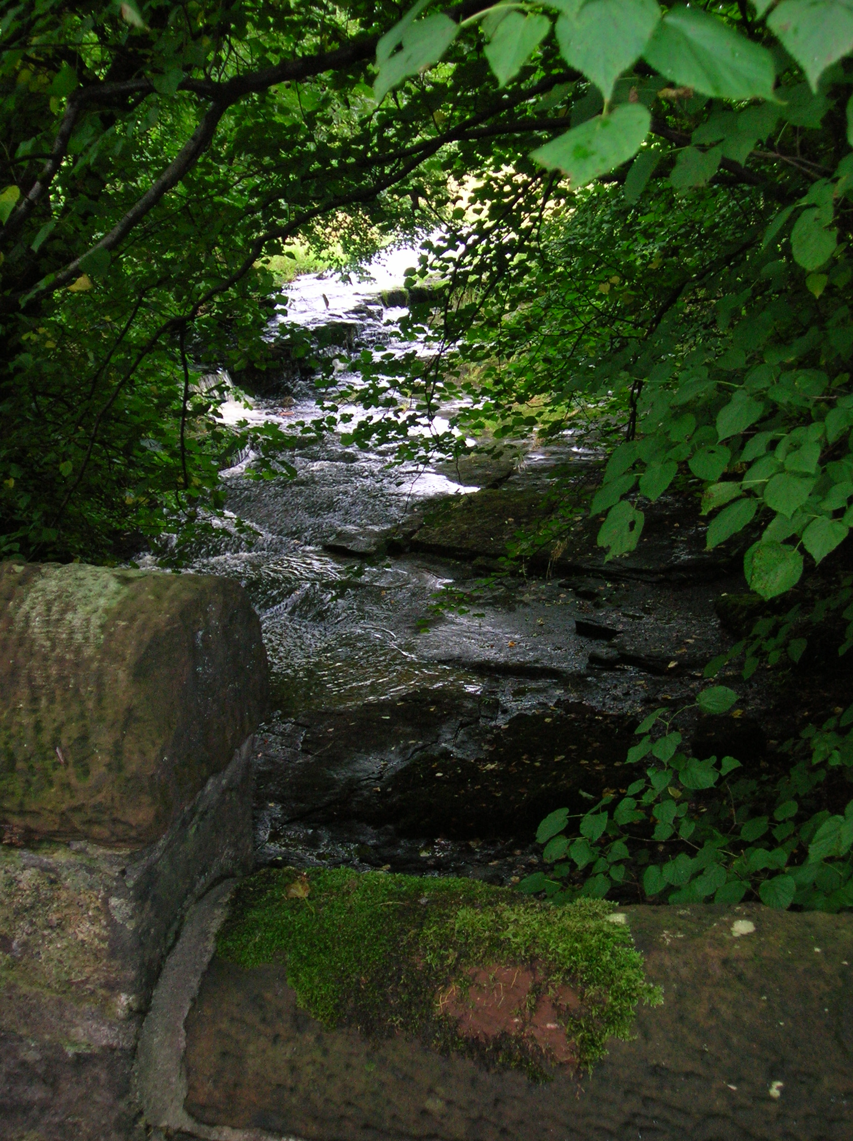 The Dusk Water at Hessilhead farm Town, Beith, Ayrshire, Scotland